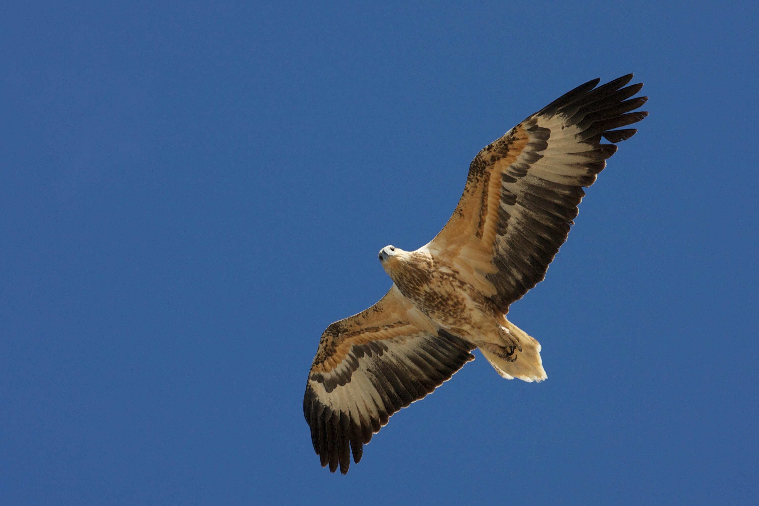 A juvenile White-bellied Sea Eagle soaring above the shore of East Wallabi Island (in the Indian Oceon) Australia.